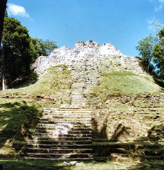 Description: Maya Ruins of Lamanai Source: Nepenthes - own pic Date: 1999